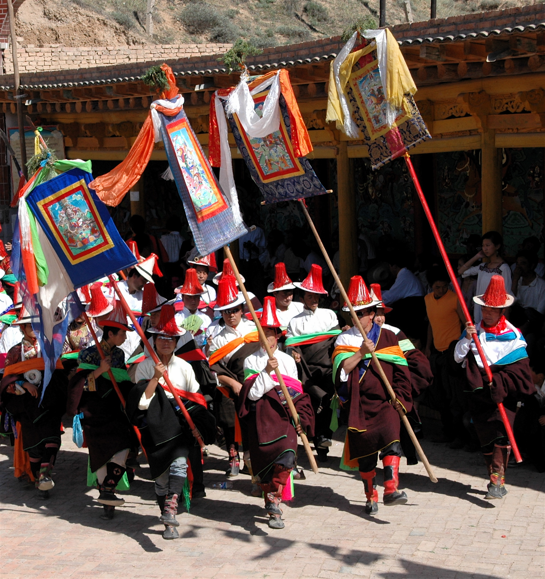 Thangkas carried in procession by buddhist tibetan believers